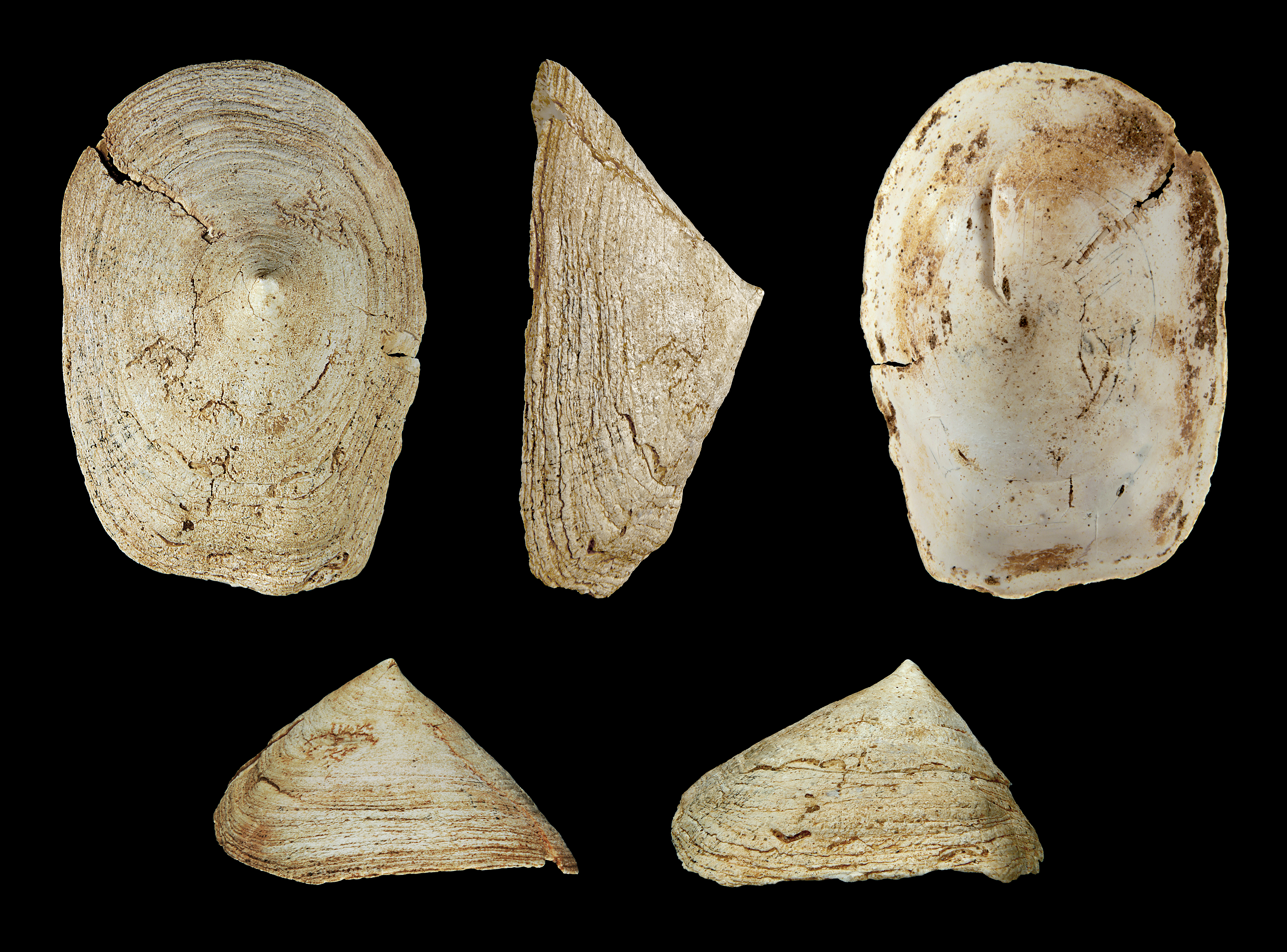 Length 3,5 cm; Miocene, Burdigalian, Saucats - la Brede near Bordeaux, France; Shell of own collection, therefore not geocoded. Dorsal, lateral (left side), ventral, back, and front view.